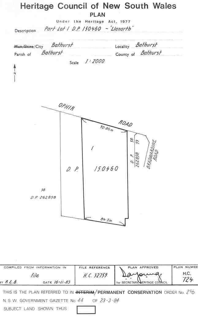 Llanarth (house): PCO Plan Number 296